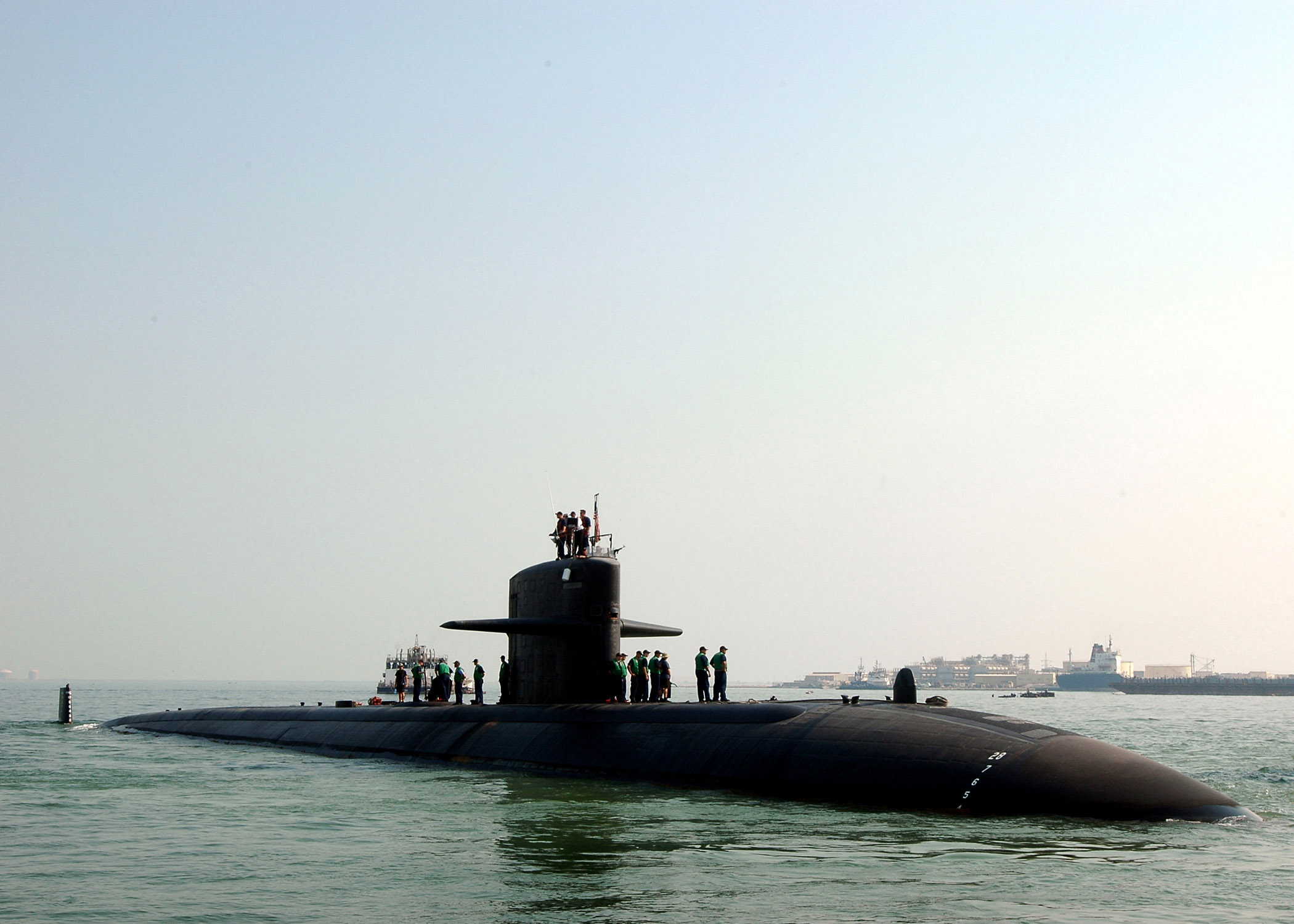 MANAMA, Bahrain (Oct. 7, 2007) - Sailors assigned to Los Angeles-class attack submarine USS Philadelphia (SSN 690) stand topside as the submarine gets underway. Philadelphia is underway on a scheduled deployment. U.S. Navy photo by Mass Communication Specialist 3rd Class Octavio N. Ortiz (RELEASED)